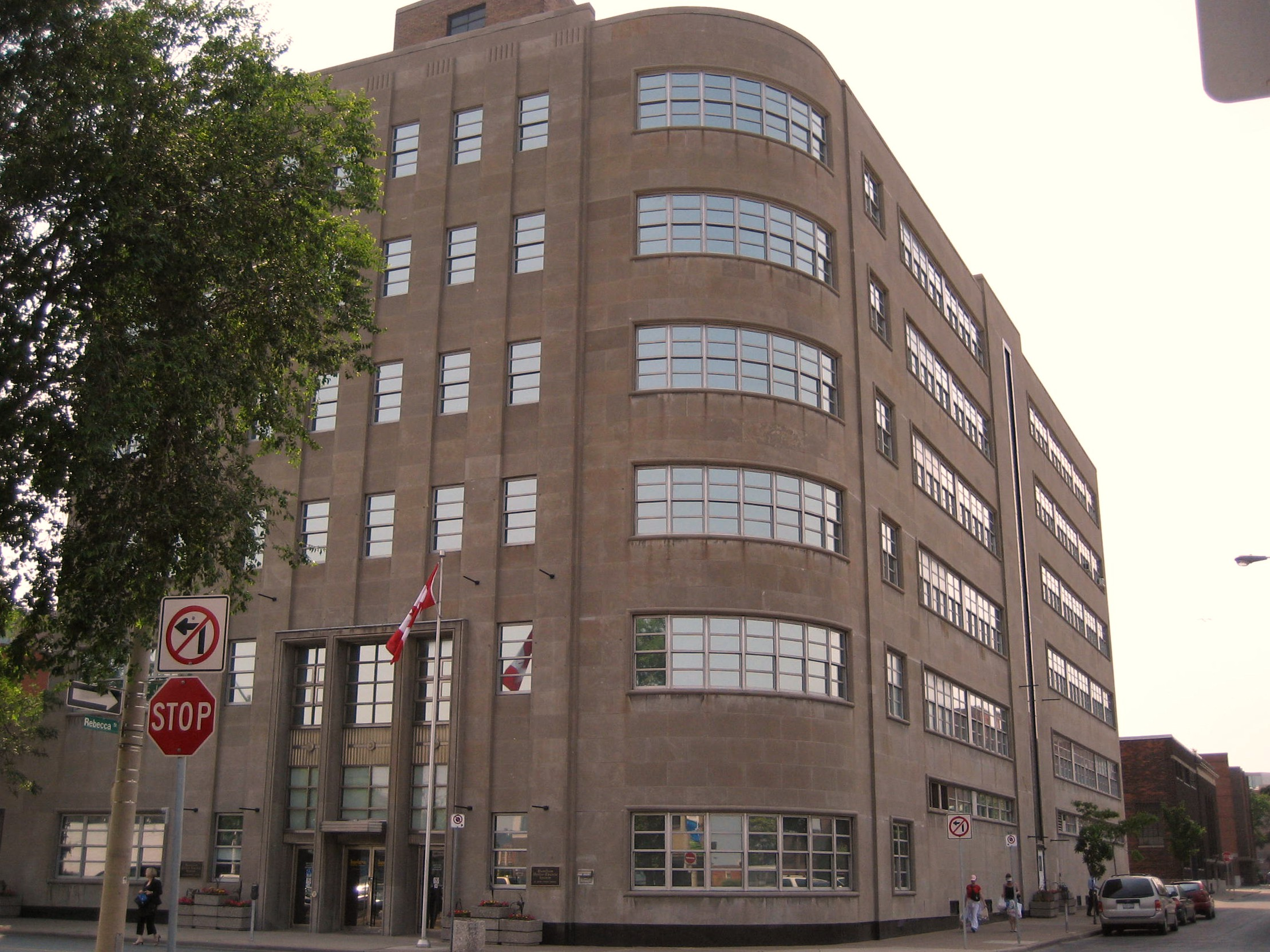 Hamilton Hydro-Electric System Building, John Street North, Hamilton, Ontario